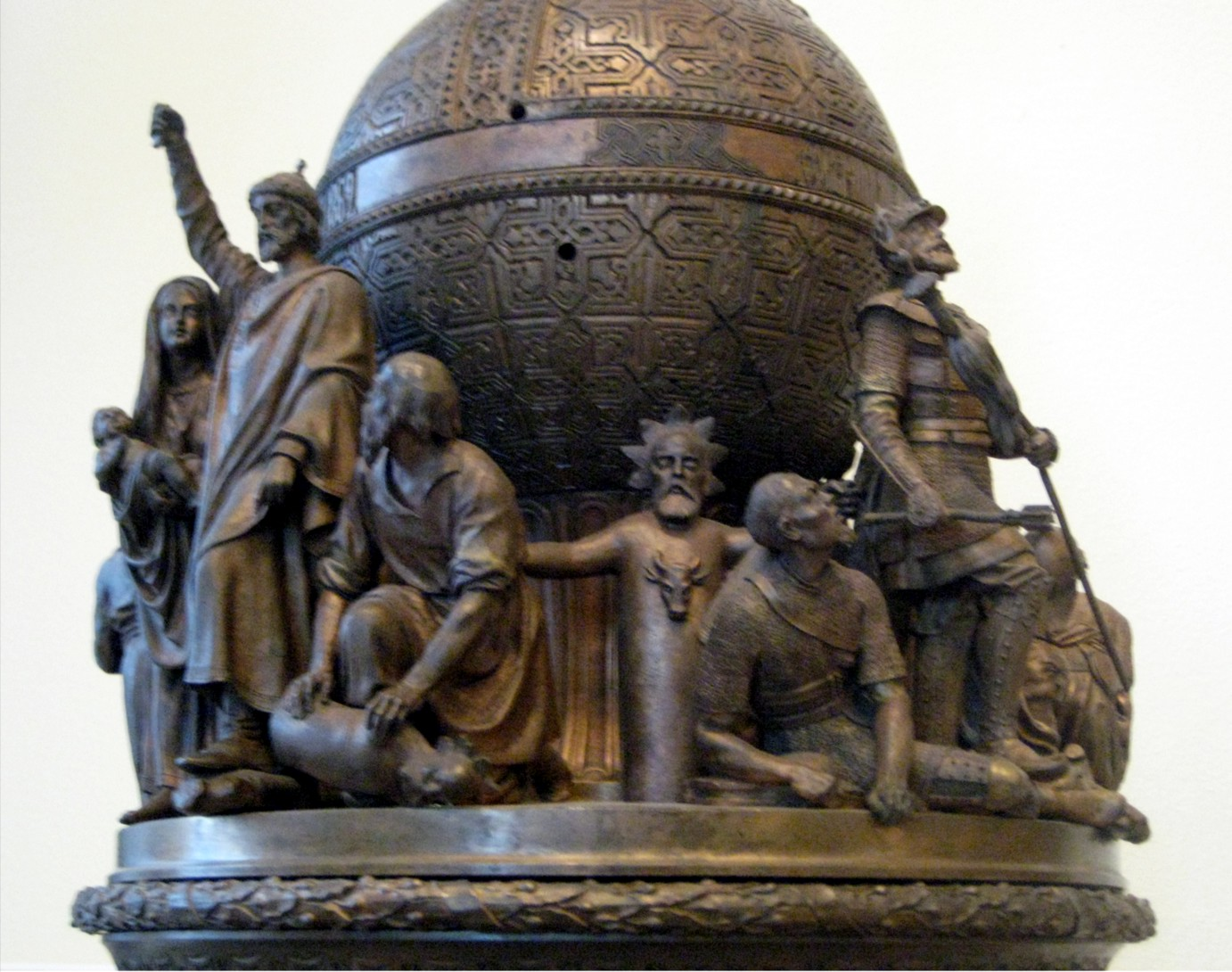 Model of sculpture Millennium of Russia.